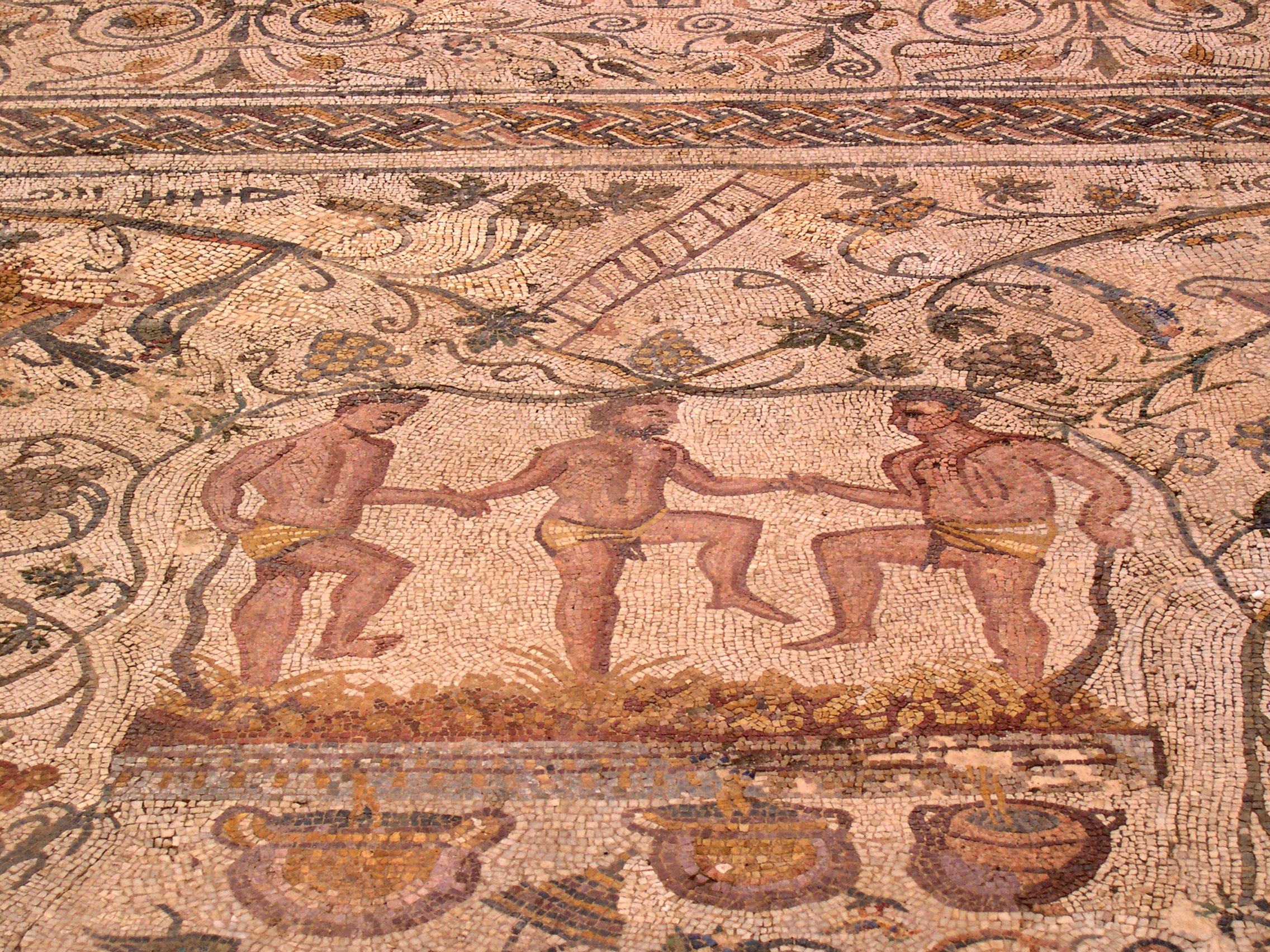 Vintage in Merida